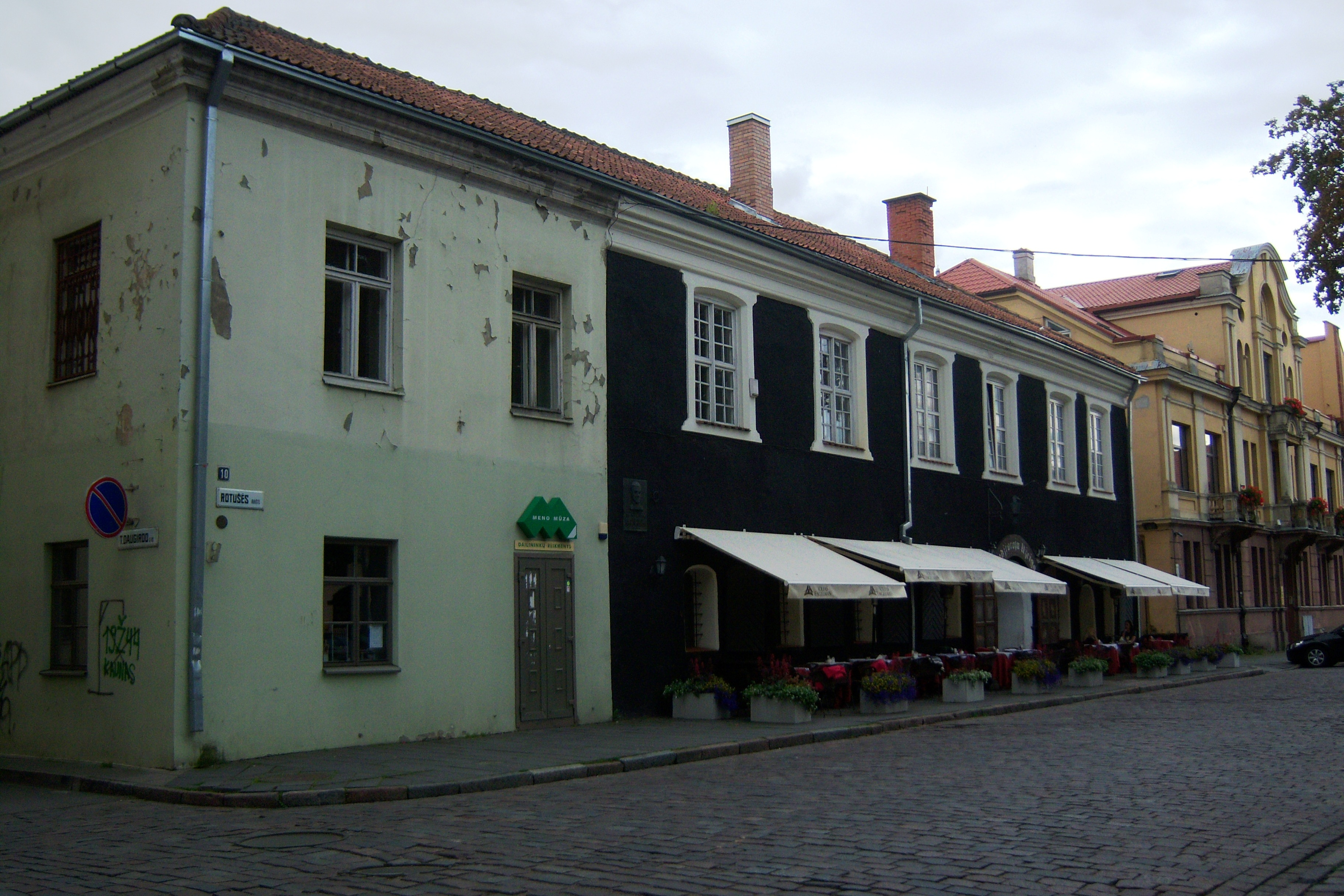 Zabielų Palace, Kaunas, Lithuania